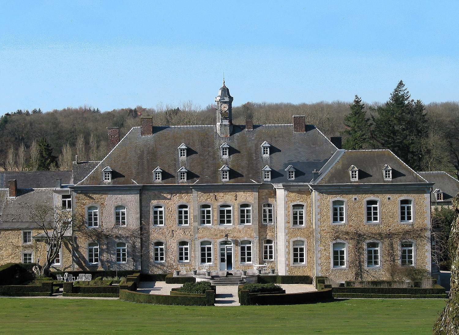 Doyon (Belgium), the castle.